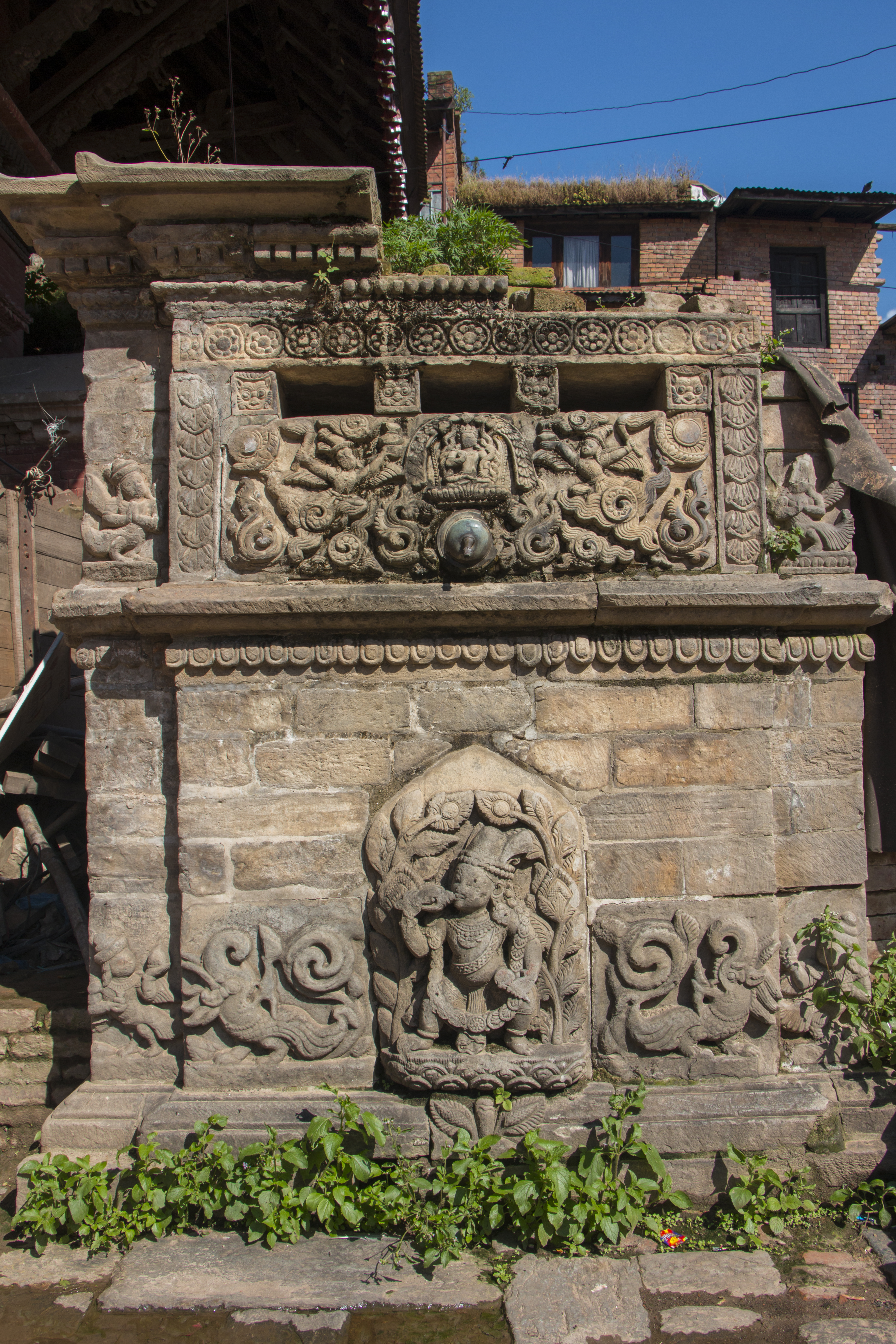 Jarun next to Bhairavnath Temple, Bhaktapur.